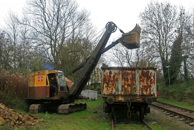 Rocks by Rail - face shovel demonstration. A volunteer demonstrates a Ruston Bucyrus face shovel. It is poised to empty the bucket into a mineral wagon - except the bucket is empty because the wagon can't be emptied.